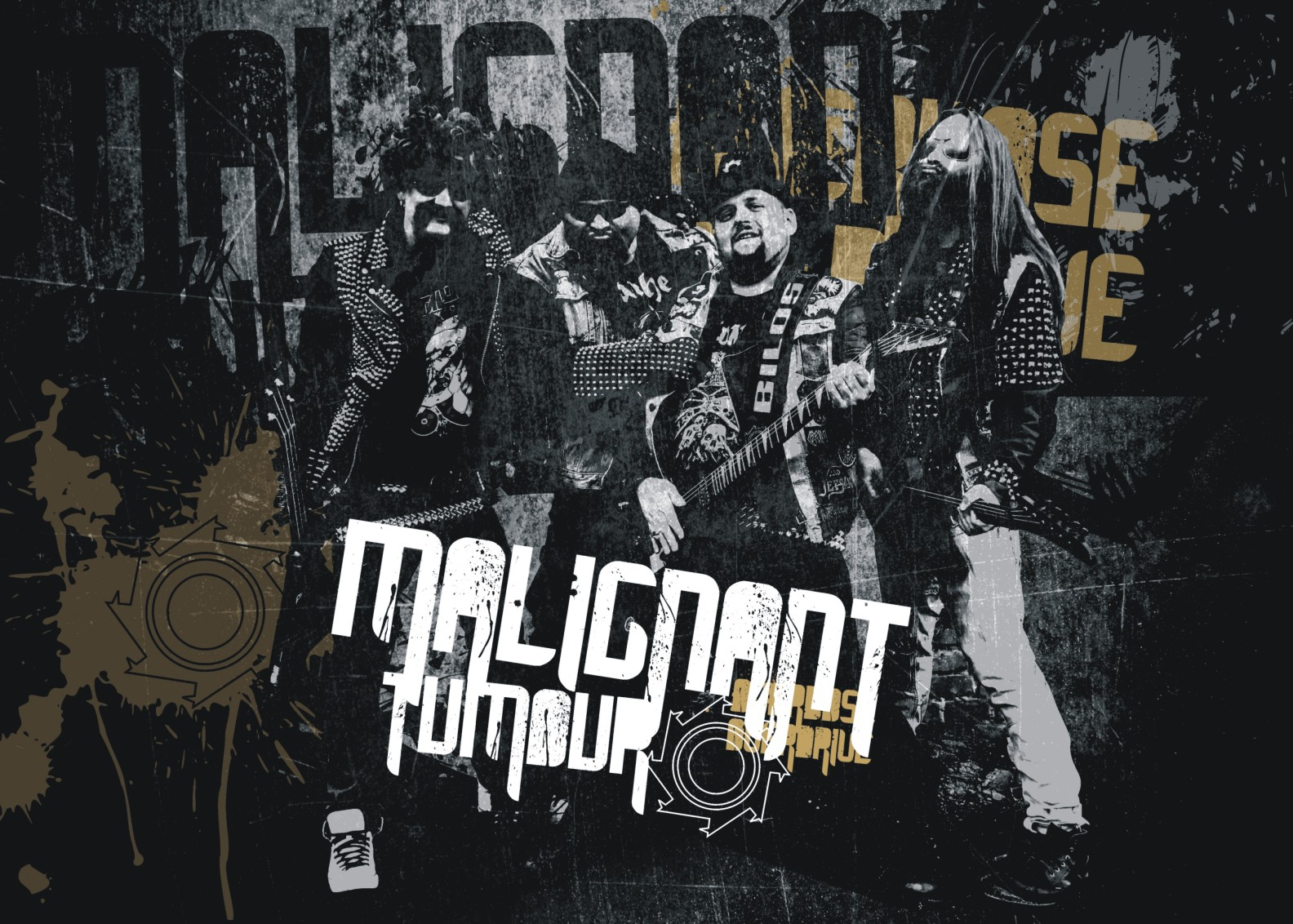 Malignant Tumour band photo 2013